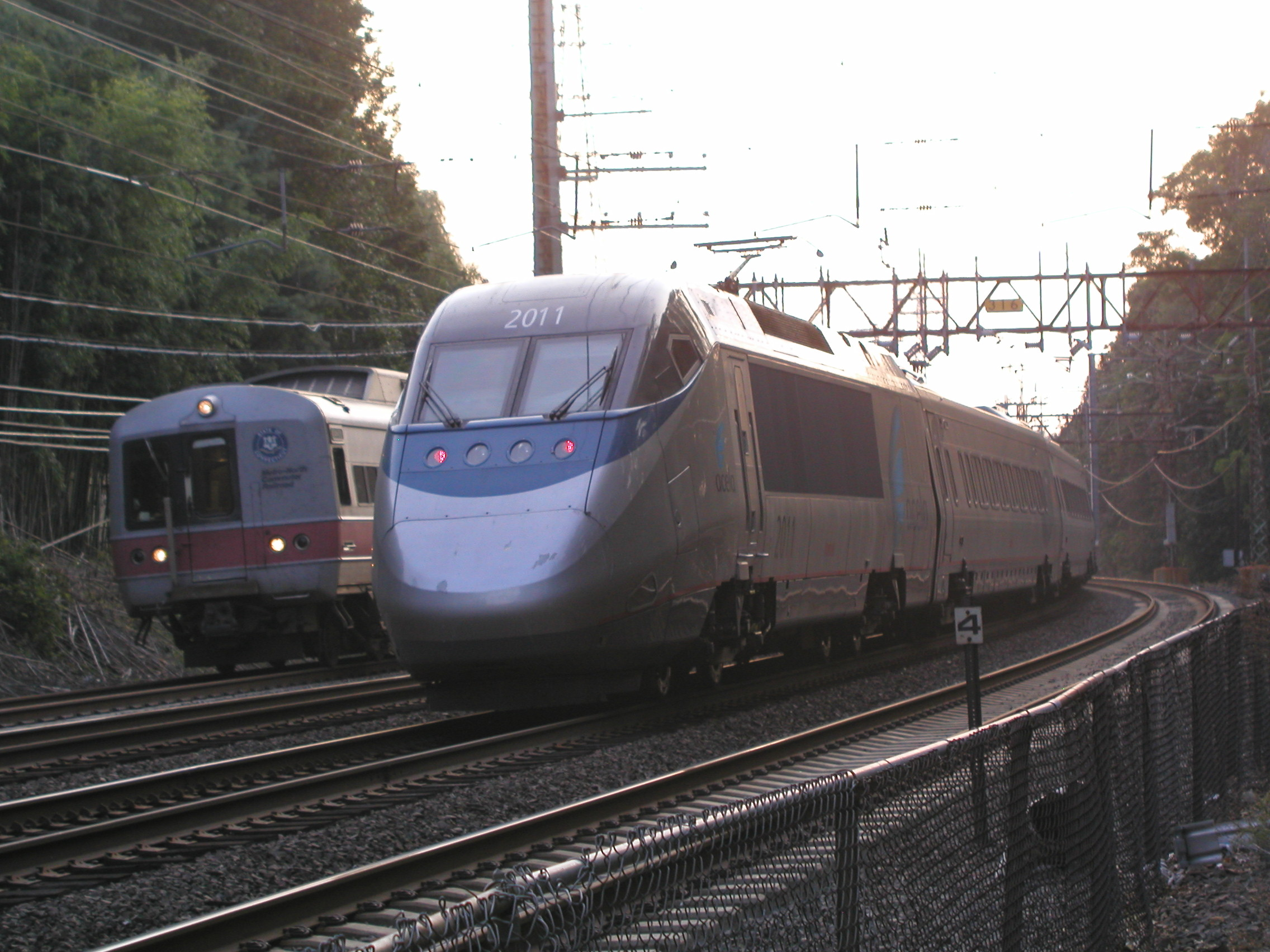 The trailing power car of a southbound Acela Express and the front of a northbound Metro-North railcar on the curve west of Riverside station in Greenwich, Connecticut